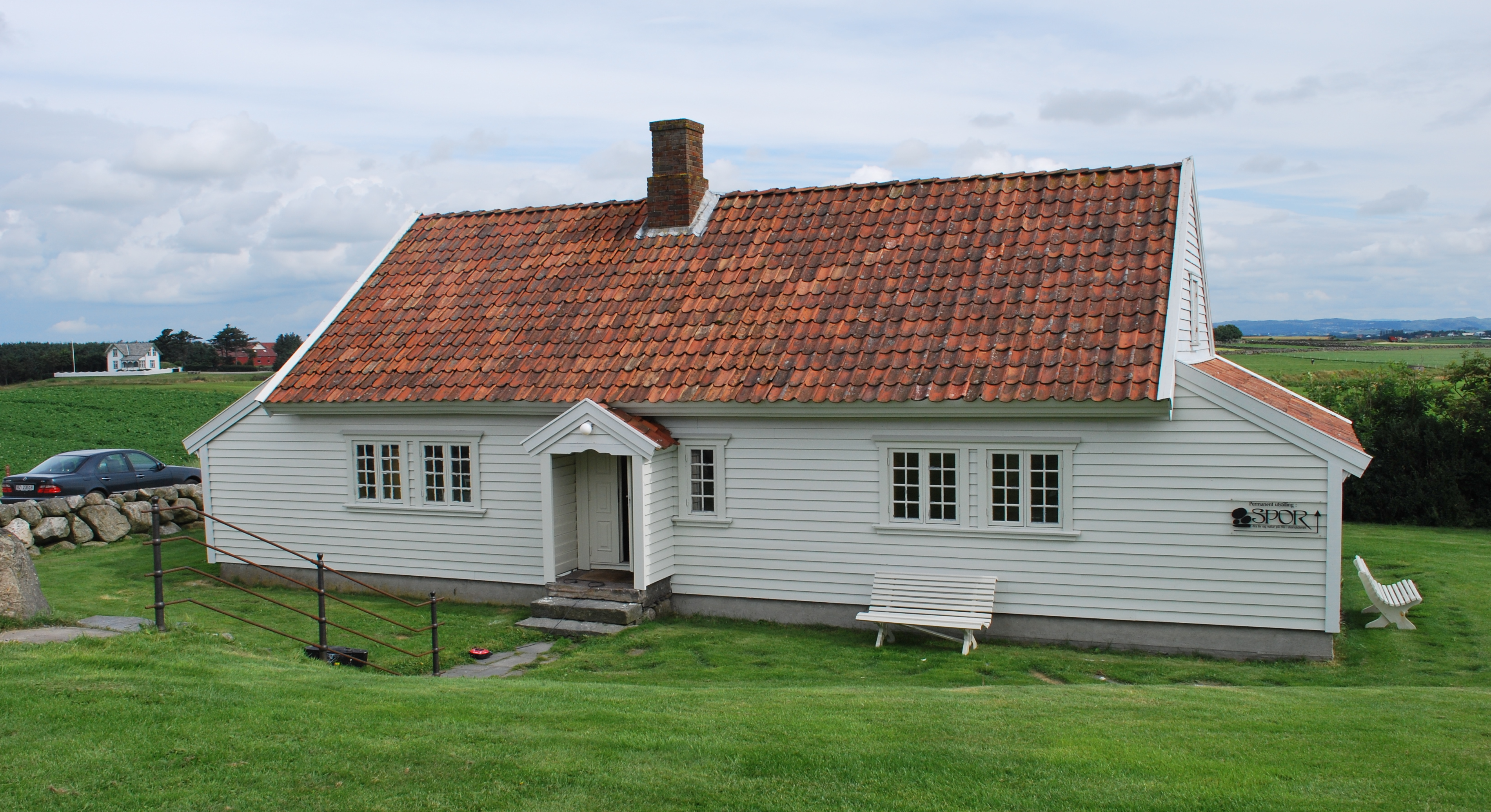 Wooden house typical for Jæren district, Norway. Hå gamle prestegård